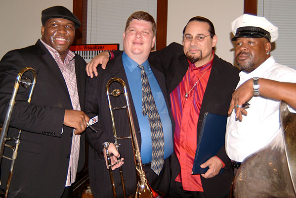 Big Sam Williams, Jeff Albert, Steve Turre, and Kirk Joseph